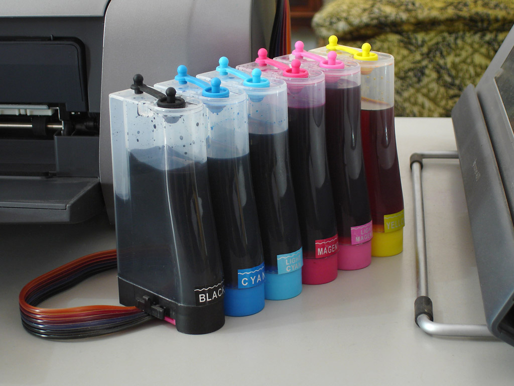 Picture of my Epson inkjet printer with a continuous ink system installed. Author: Denis Gomes Franco